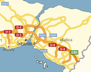 adaption/part of "Dirus-Roads of Istanbul.svg"